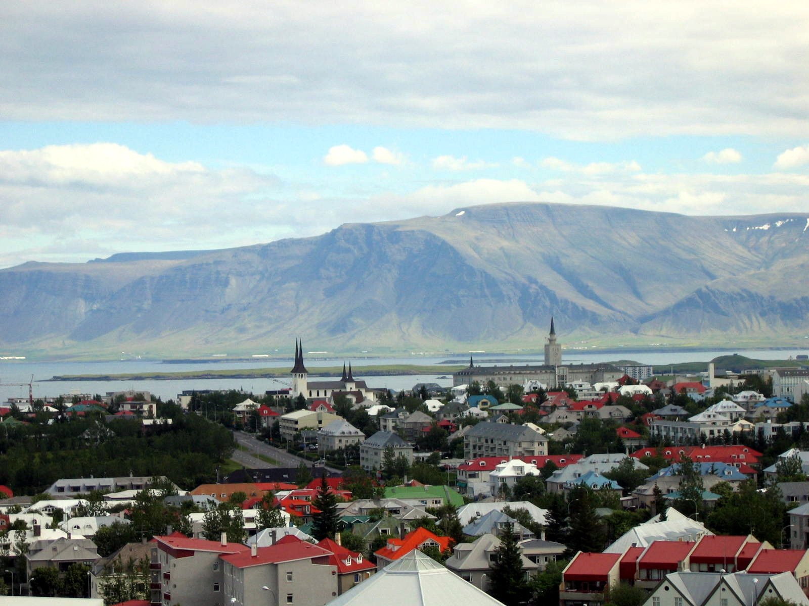 view of Reykjavik from the Pearl